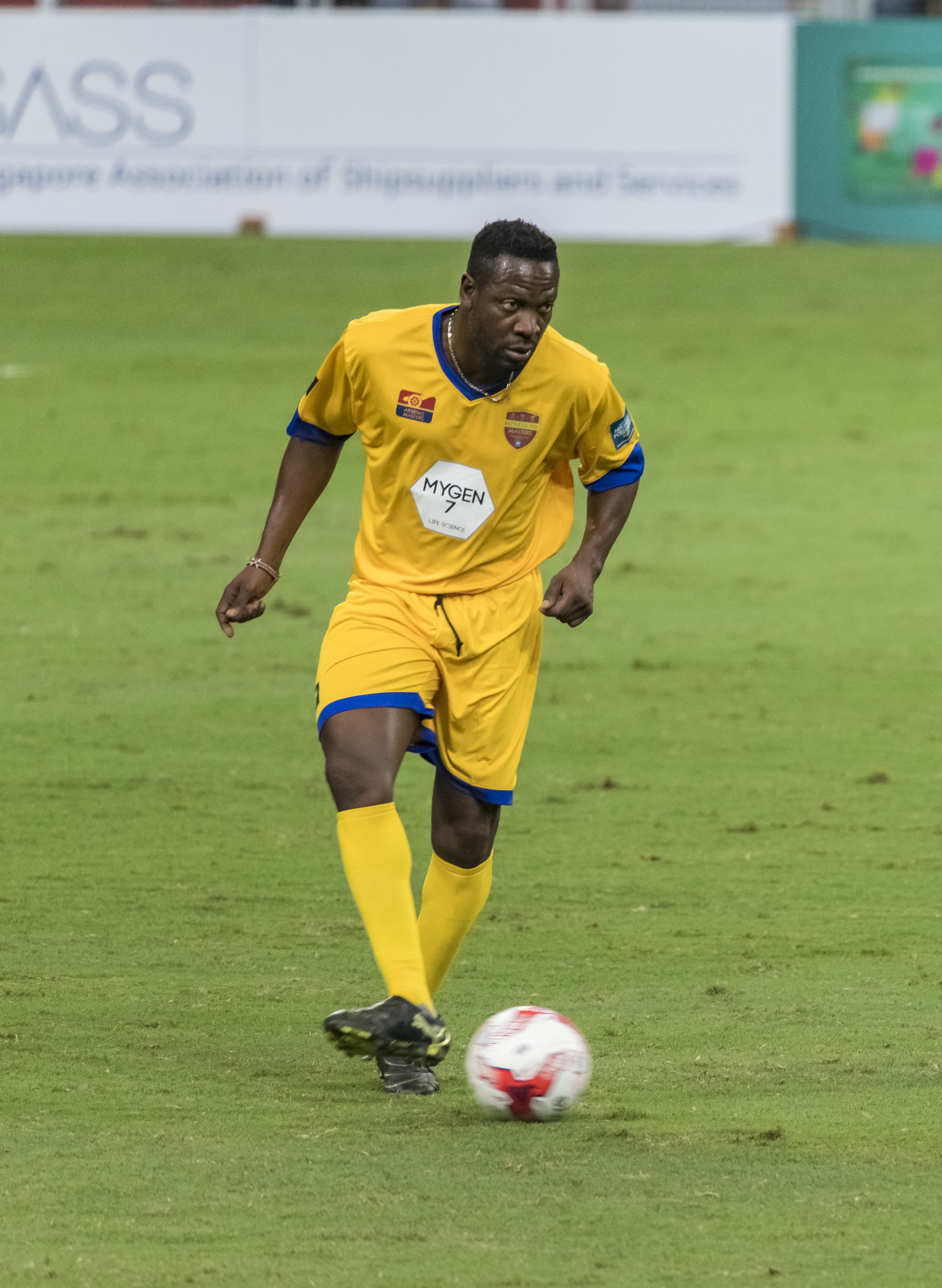 lauren arsenal masters singapore national stadium 2017